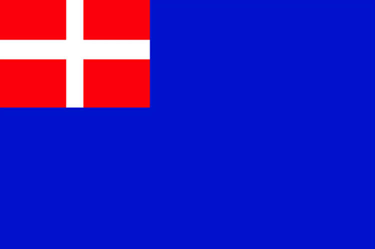 Flag of the Kingdom of Sardinia (1728-1802)